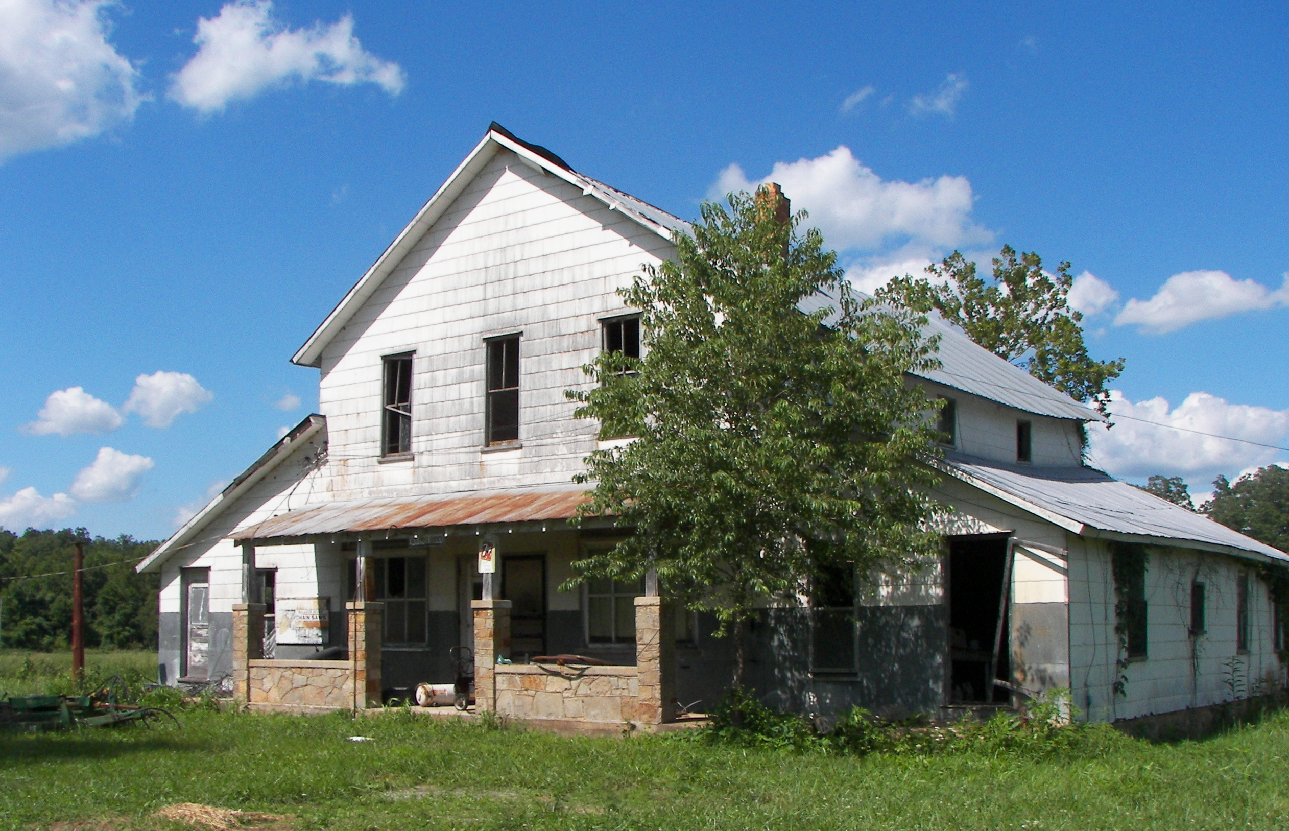 The former post office in the unincorporated town of Dillard in Crawford County, Missouri, on the road to Dillard Mill. Rotation, cropping, saturation, and contrast have been slightly adjusted in this image.